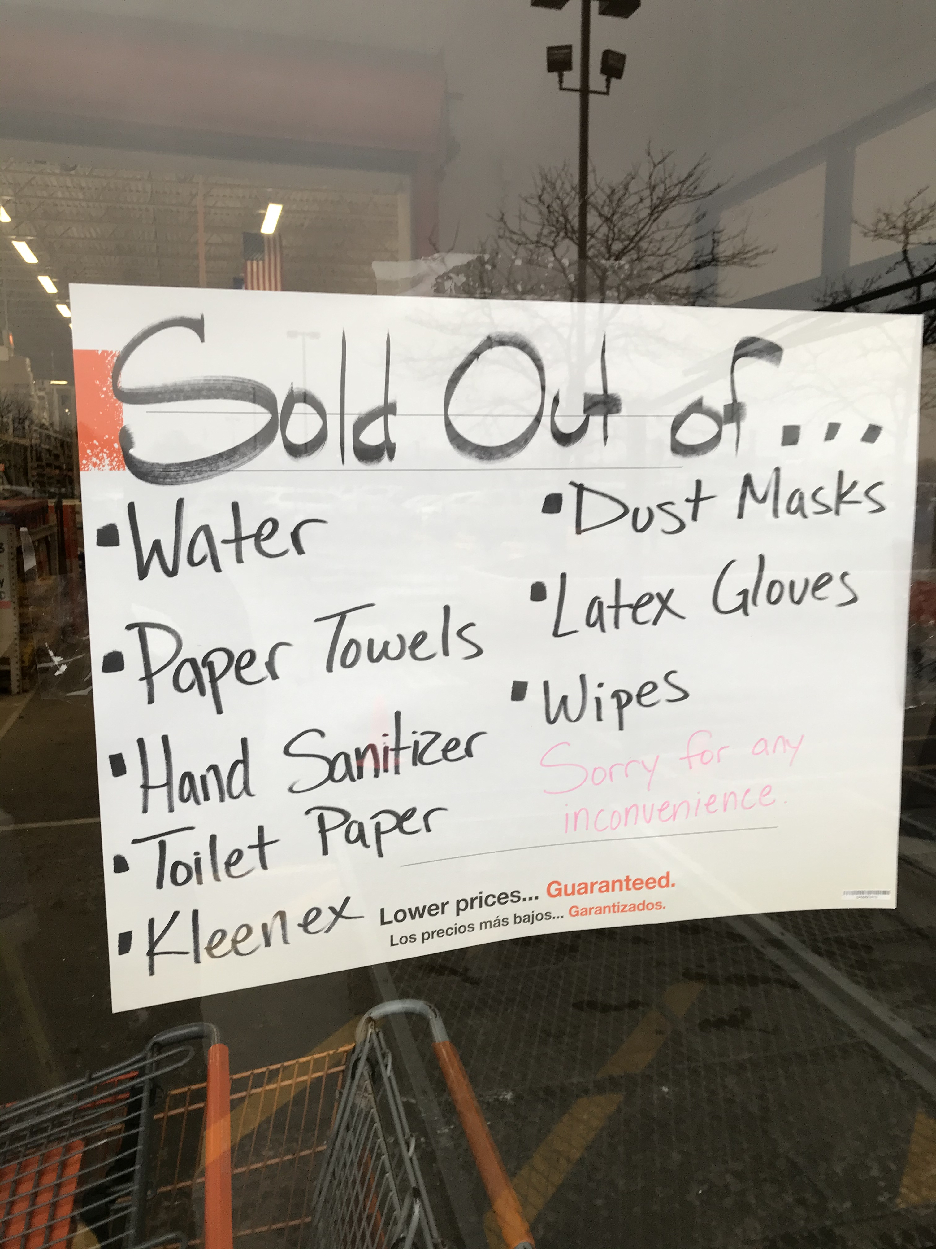 sold out during COVID-19 outbreak at home improvement box store in Brickyard, Chicago The sign reads: Sold Out of... Water Paper Towels Hand Sanitizer Toilet Paper Kleenex Dust Masks Latex Gloves Wipes Sorry for any inconvenience